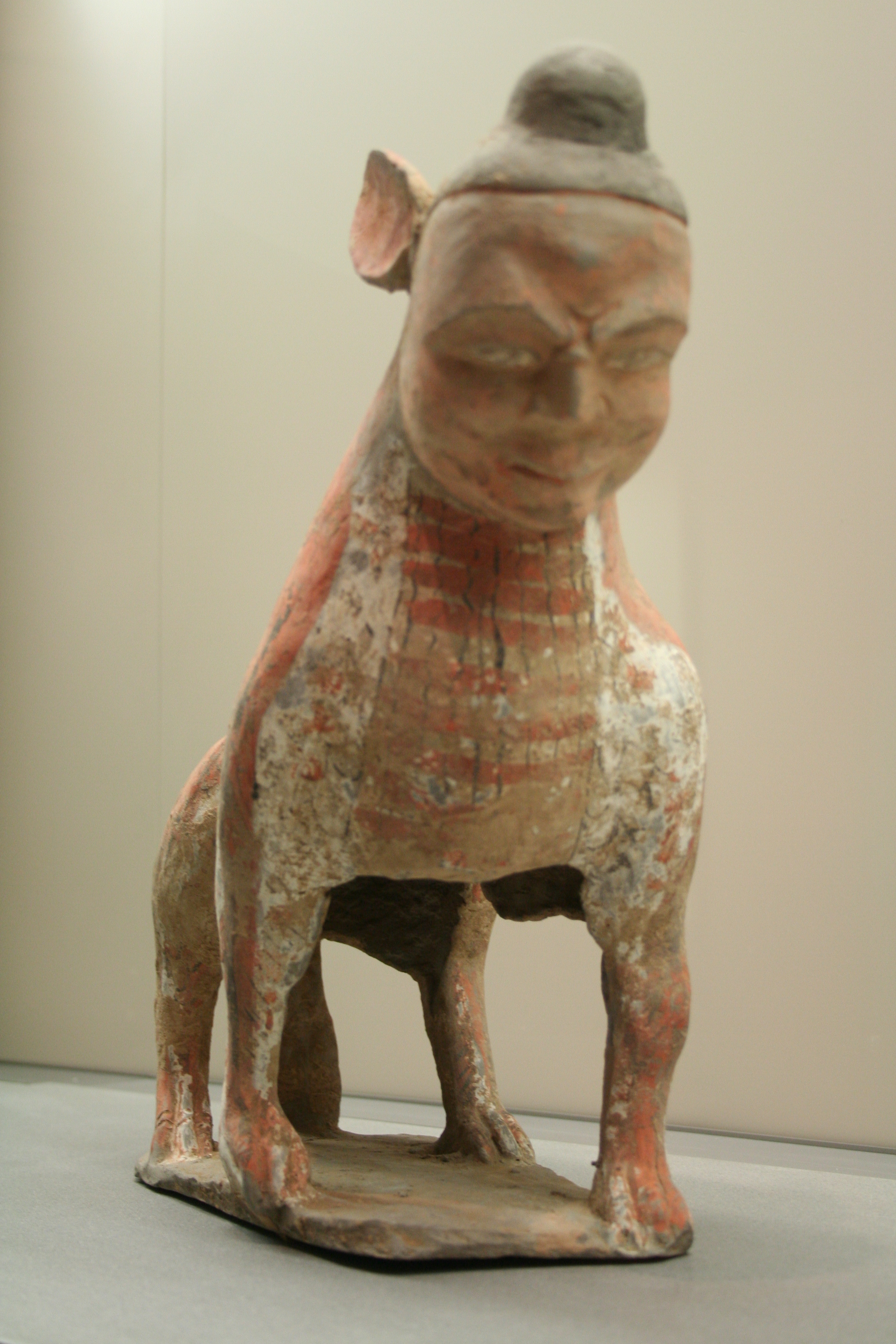 Tomb Beast-Guard (Zhenmushou). Terra Cotta. Northern China. Northern Wei Dynasty (386 – 534). Late 5th – Early 6th Century. Cernuschi Museum, Paris, France.